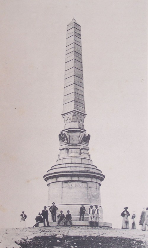 Millennium Monument on Zobor (1896-1921)